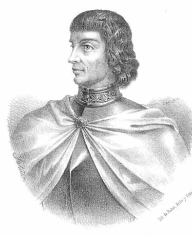 Portrait of Pedro de Vera y Mendoza, of Jerez de la Fronter, Spain, ca. 1430 - 1505